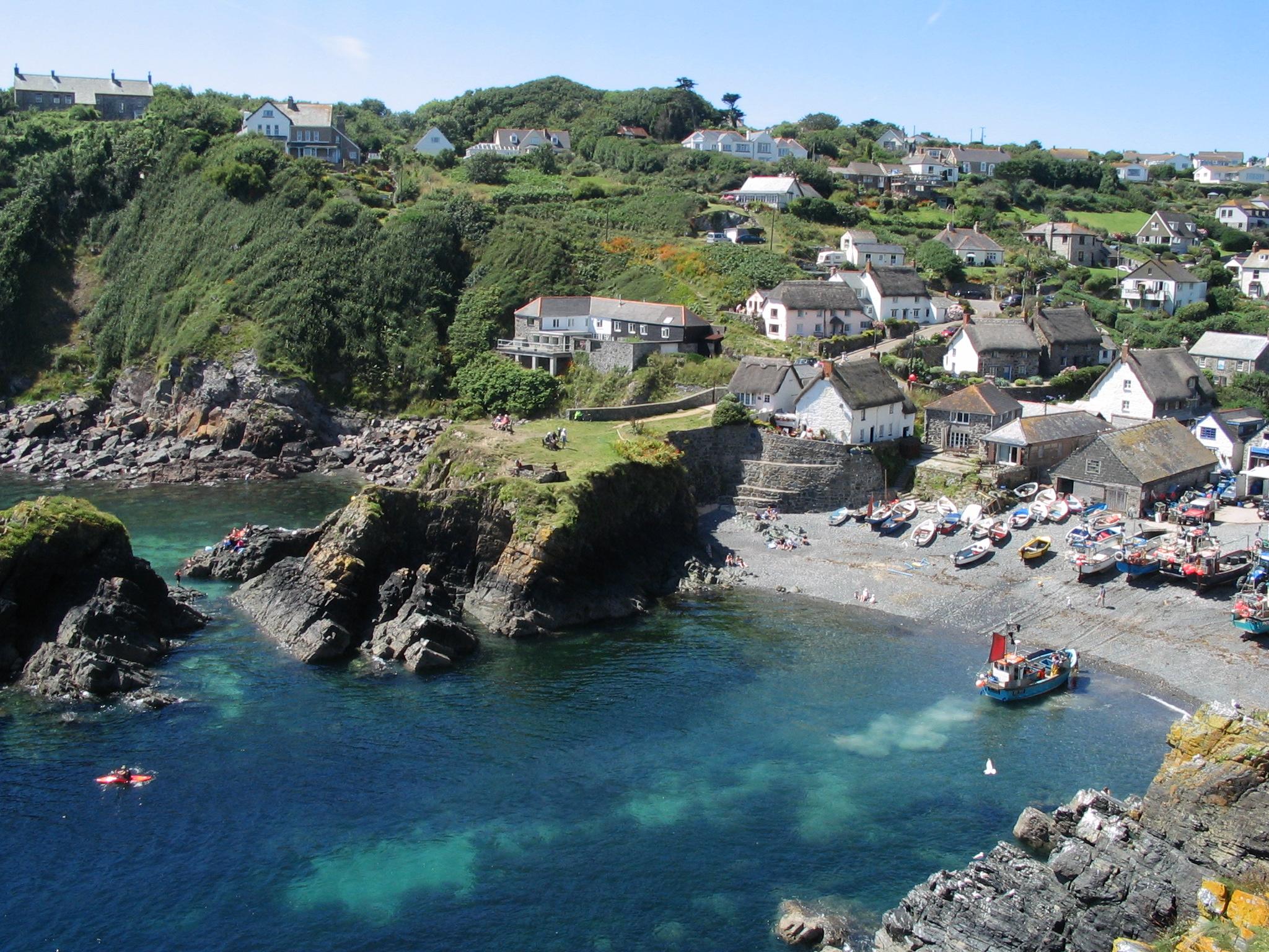 Image taken by jschwa1 whilst on holiday, summer 2005